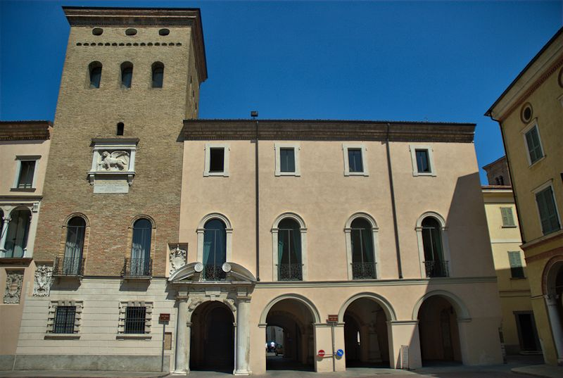 Town Hall of Crema